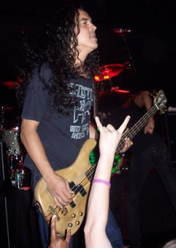 Photo of Mike Inez